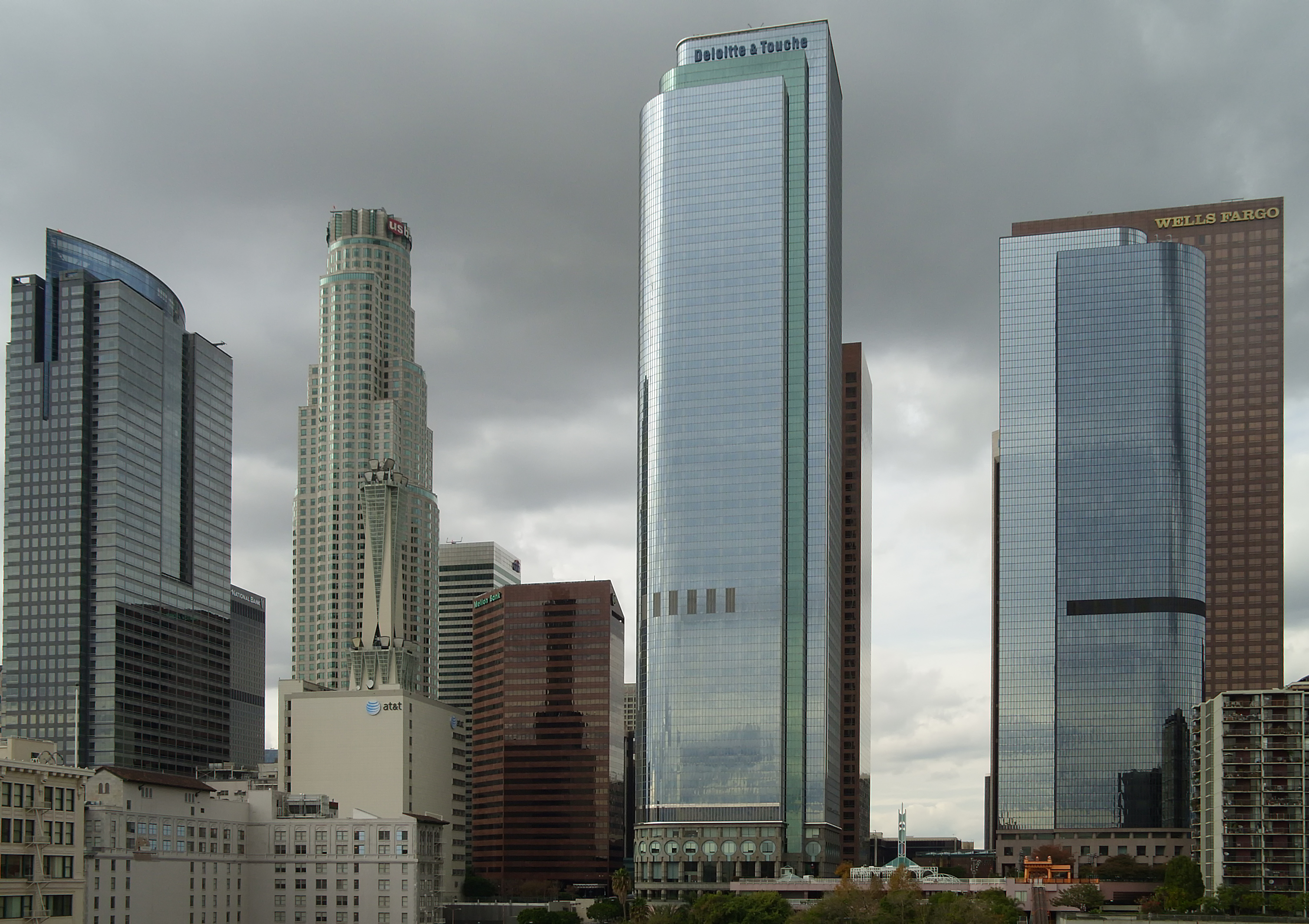 Downtown Los Angeles skyscrapers on a cloudy day. From left to right Gas Company Tower; City National Bank Tower; U.S. Bank Tower; AT&T Switching Center (front); Citigroup Center (behind); Mellon Bank Center; Two California Plaza; KPMG Tower (behind); One California Plaza; and Wells Fargo Tower